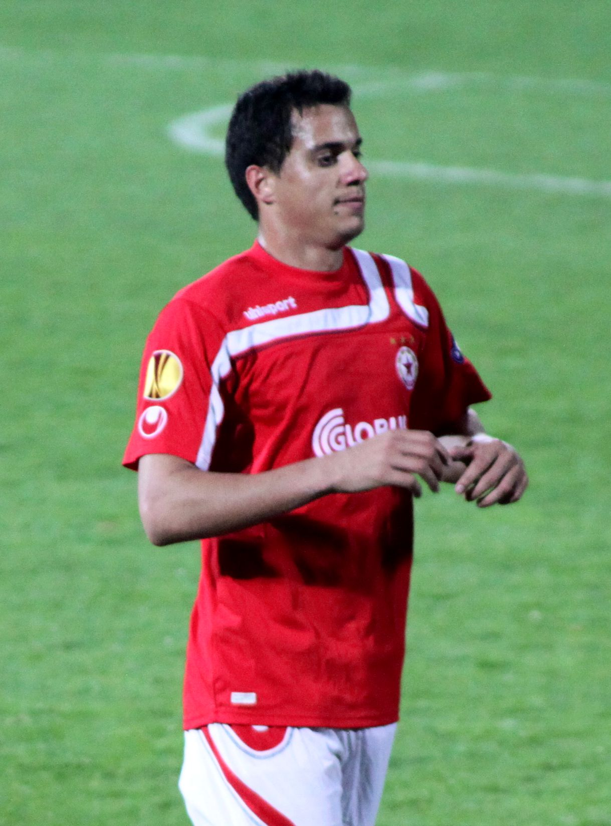 Michel Platini Ferreira Mesquita or simply Michel Platini (born 8 September 1983 in Minas Gerais, Brazil) is a Brazilian footballer. Michel plays for Bulgarian club CSKA Sofia as a forward